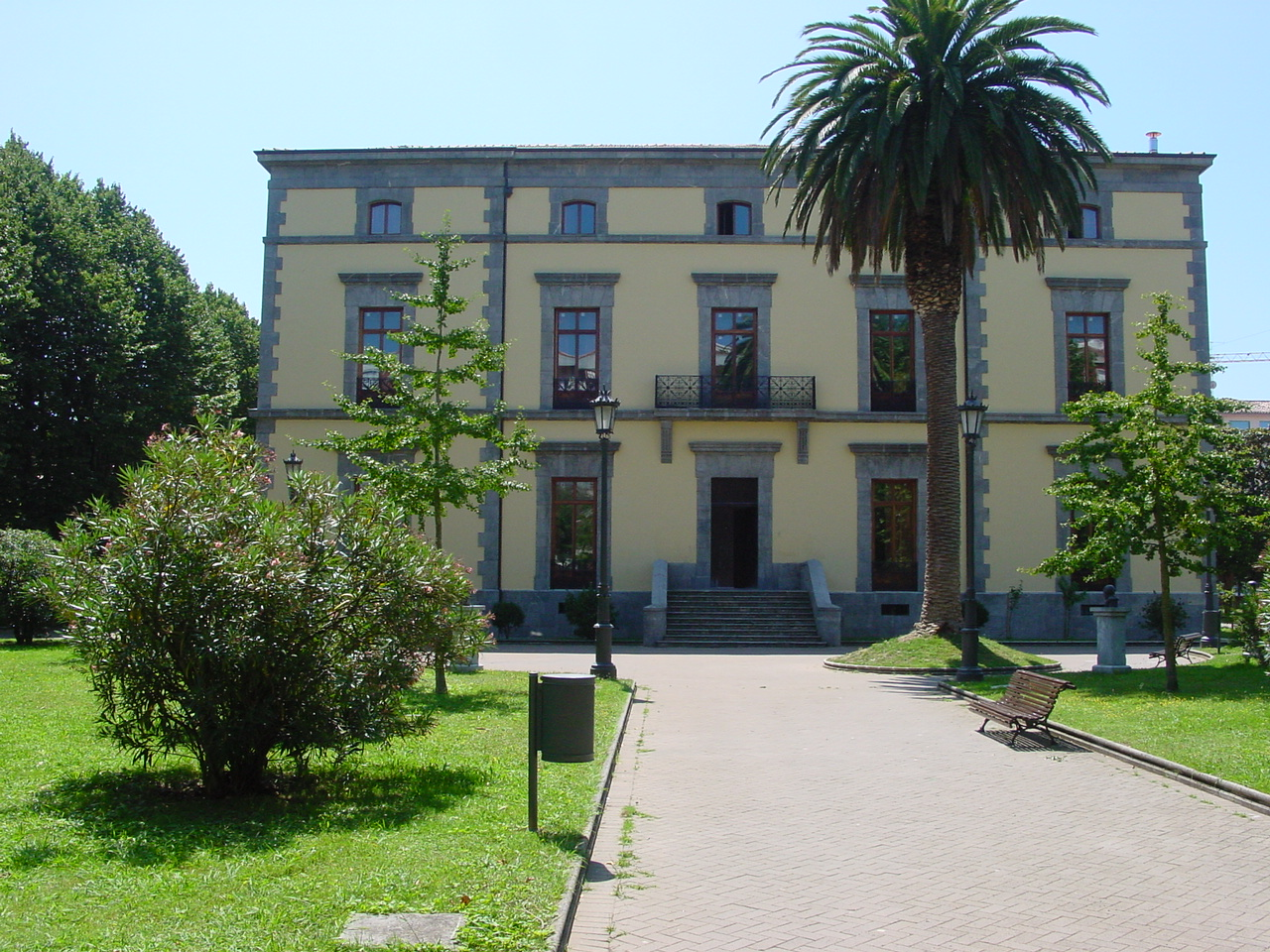 Palace of Manzanedo, Santoña (Cantabria, Spain)